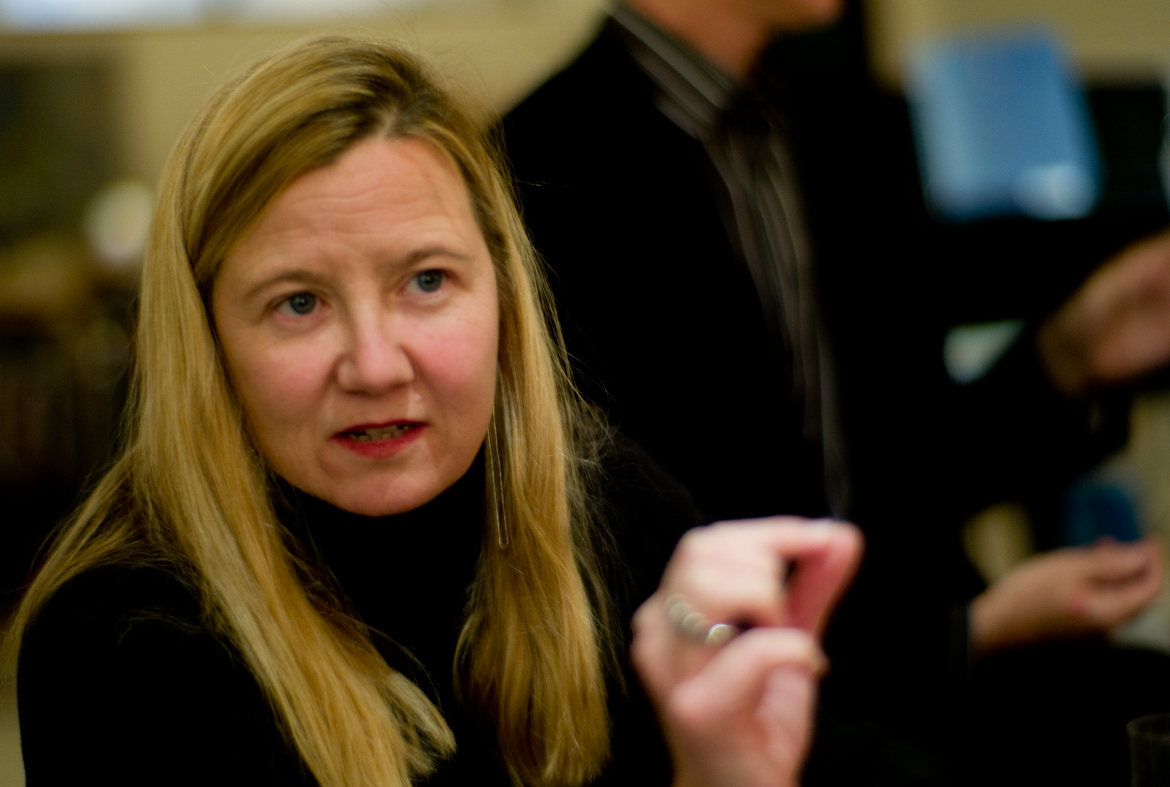 Suzanne Seggerman. FreeSouls photo by Joi Ito